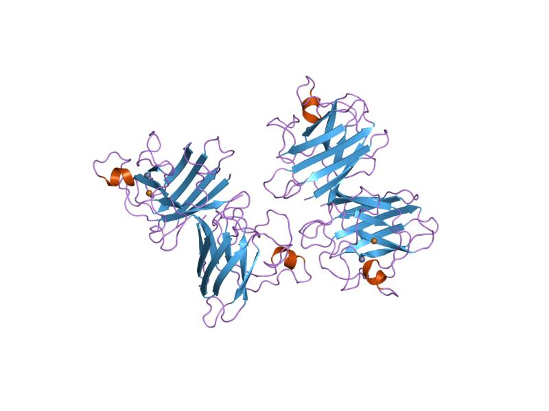 Cartoon representation of the molecular structure of protein registered with 1sdy code.